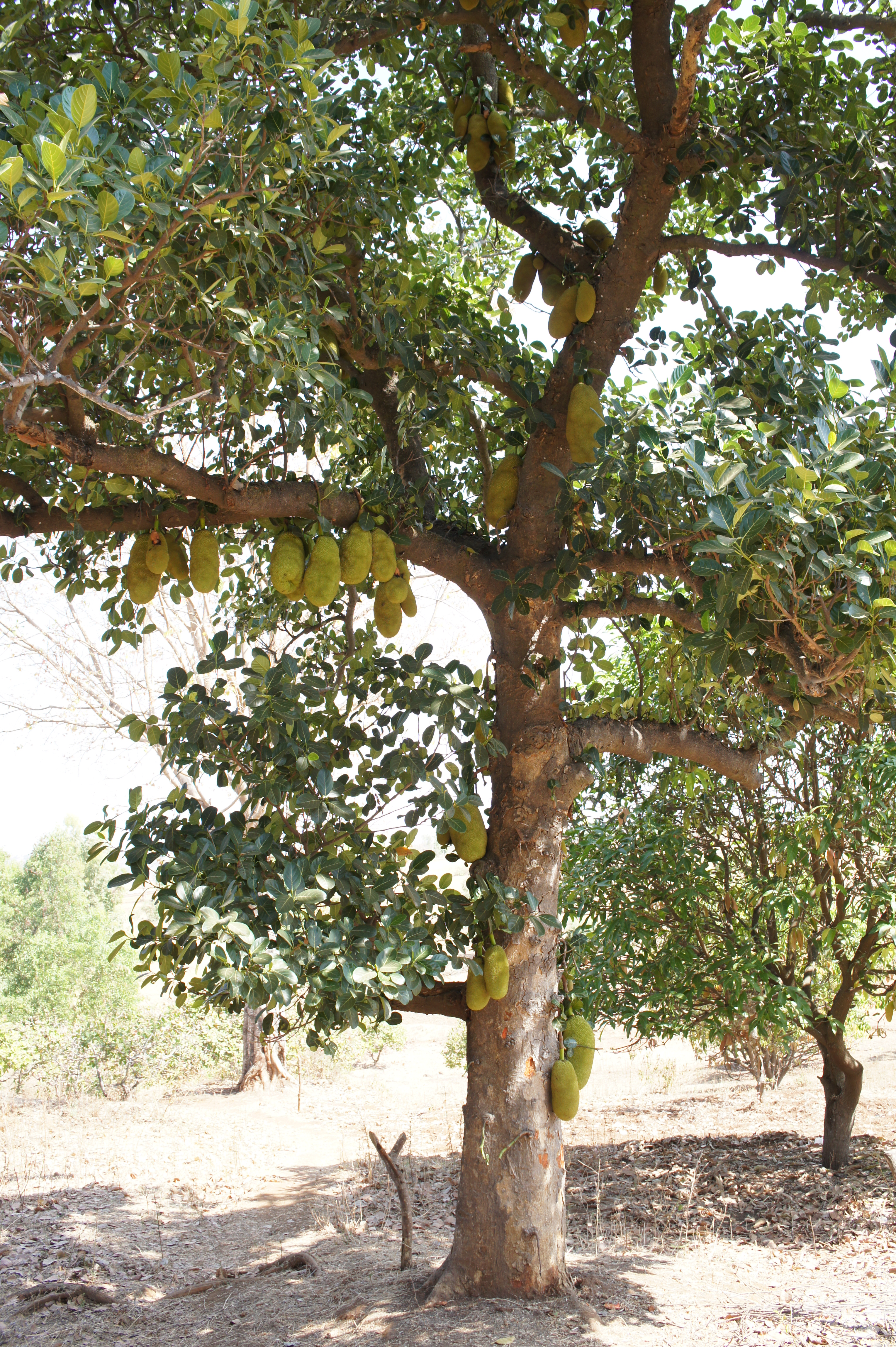 Jackfruit tree in Gujarat, India